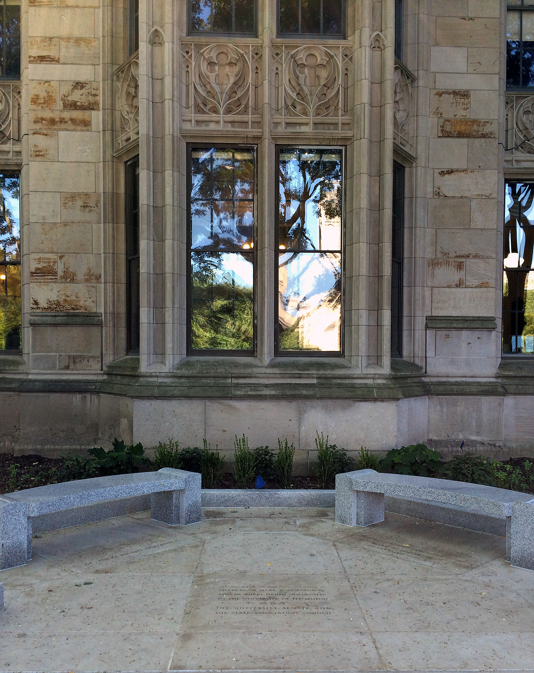 Benches dedicated to Mark Nordenberg and his wife Nikki outside of the Chancellor's offices in the Cathedral of Learning on the campus of the University of Pittsburgh